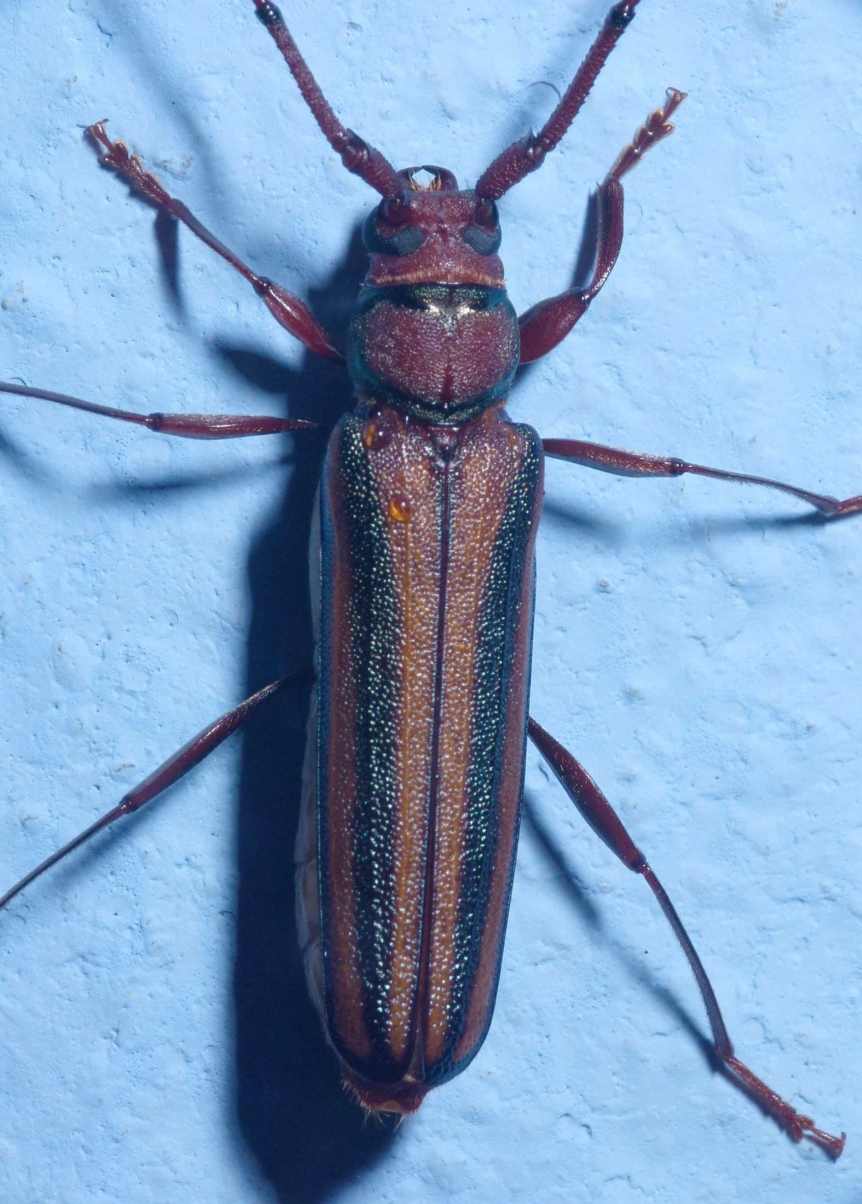 Xystrocera globosa (Olivier, 1795) (Coleoptera: Cerambycidae: Cerambycinae), Madhugiri, Karnataka, India) Identified by Sangamesh Hiremath.